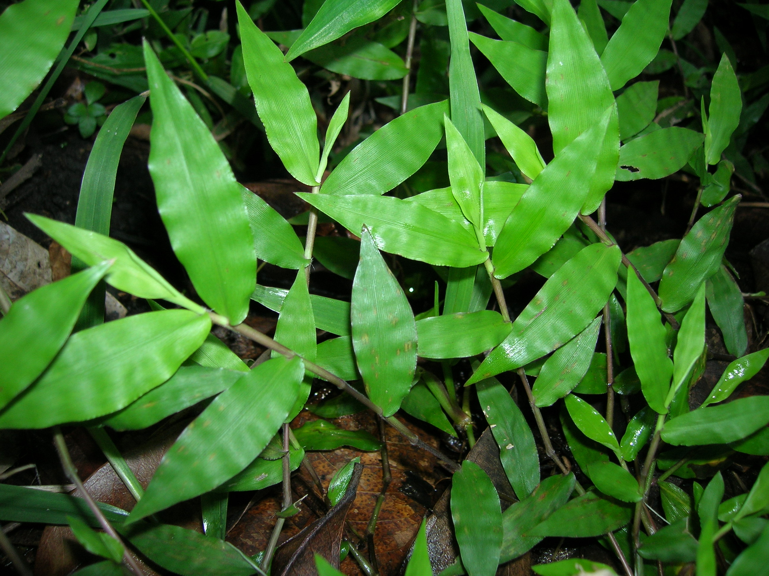 Oplismenus hirtellus (habit). Location: Maui, Hana Hwy